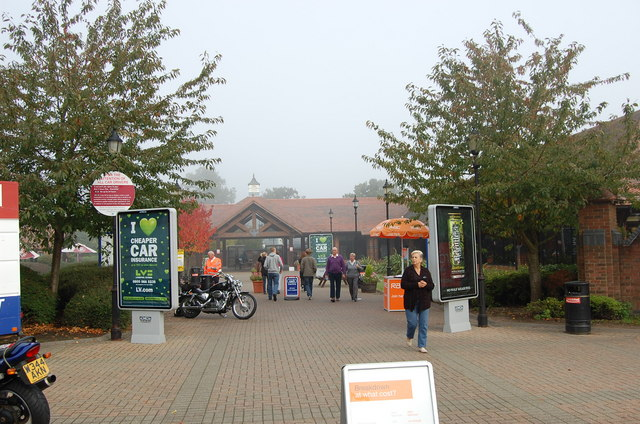 Entrance to Clacket Lane service station. This is the westbound, clockwise side of the M25.